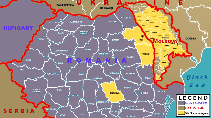 Map of the Siret-Prut-Nistru Euroregion